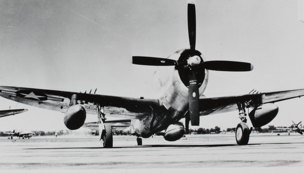 PictionID:41567028 - Title:Republic YP-47M Thunderbolt Possibly a YP-47M. Under wing pylons were introduced on the D-15-RE and D-15-RA production blocks. These enabled a drop tank or a bomb to be carried underneath each wing in addition to the stores carried on the belly shackles. Fuel changes had to be made to incorporate plumbing for the under wing tanks. Bomb selection increased to two 1000-pound or 3 500-pound bombs, with maximum bomb-load being 2500 pounds. Alternatively, a 108-gallon drop tank could be carried underneath each wing, adding 150 miles to the P-47's range. - Catalog:15_002925 - Filename:15_002925.TIF - Image from the Charles Daniels Photo Collection album "Seversky, Republic and P-47"----PLEASE TAG this image with any information you know about it, so that we can permanently store this data with the original image file in our Digital Asset Management System.----SOURCE INSTITUTION: San Diego Air and Space Museum Archive